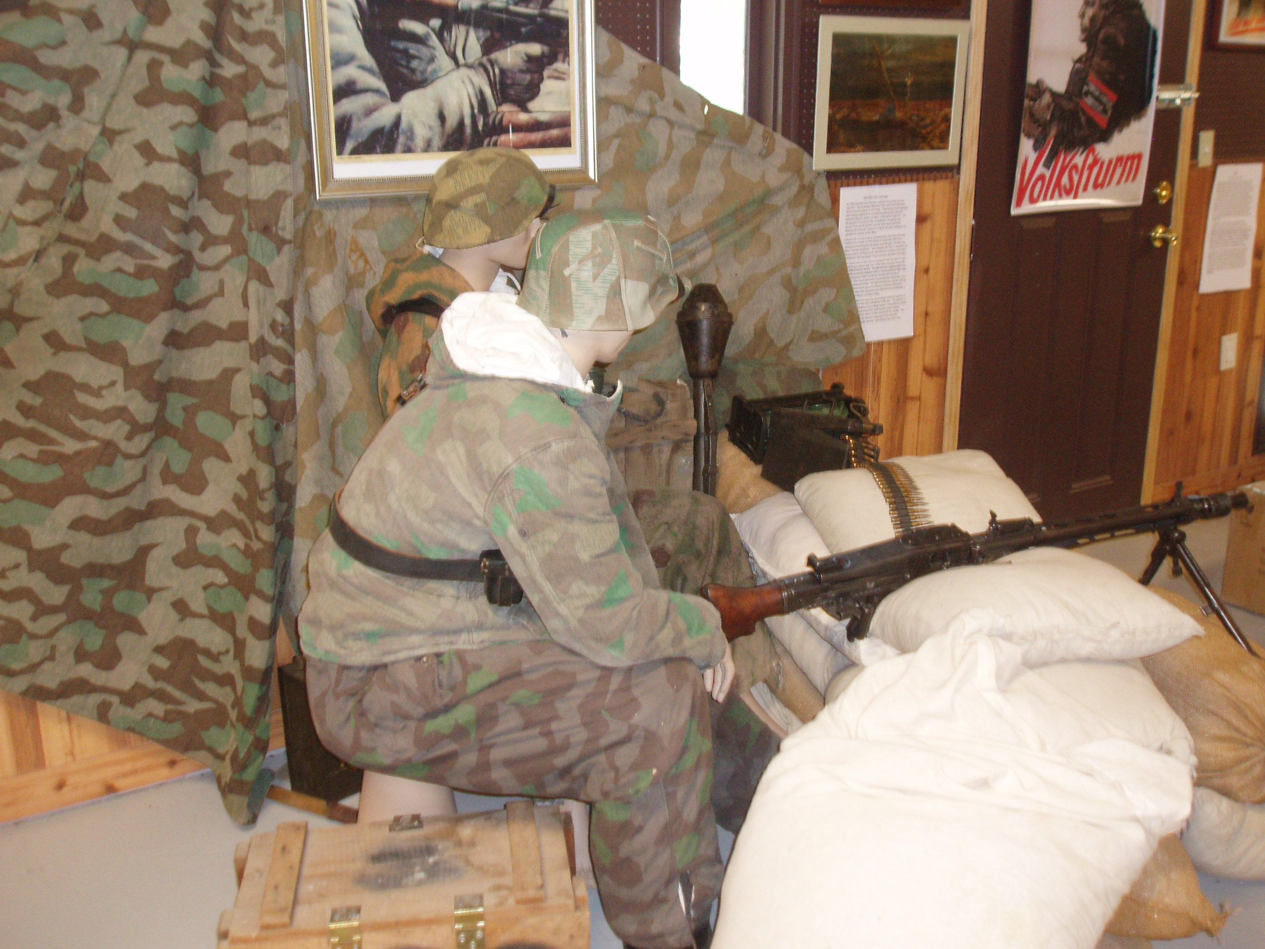 MG 42 crew in late 1944.